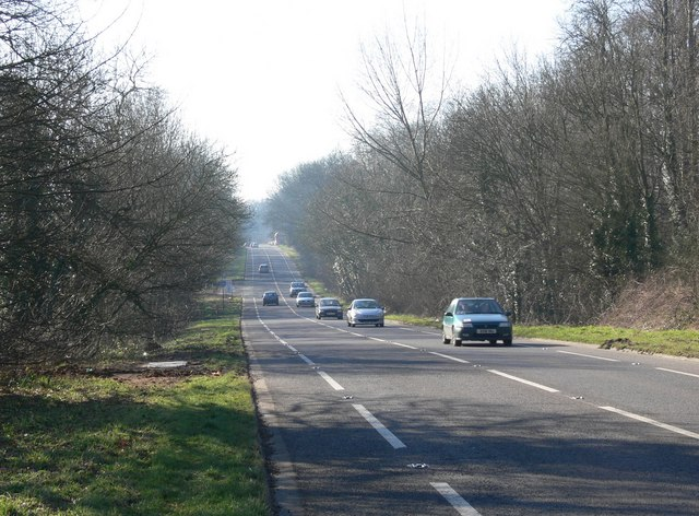 A47 Hinckley Road towards Earl Shilton Long Spinneys runs down the right side of the road.